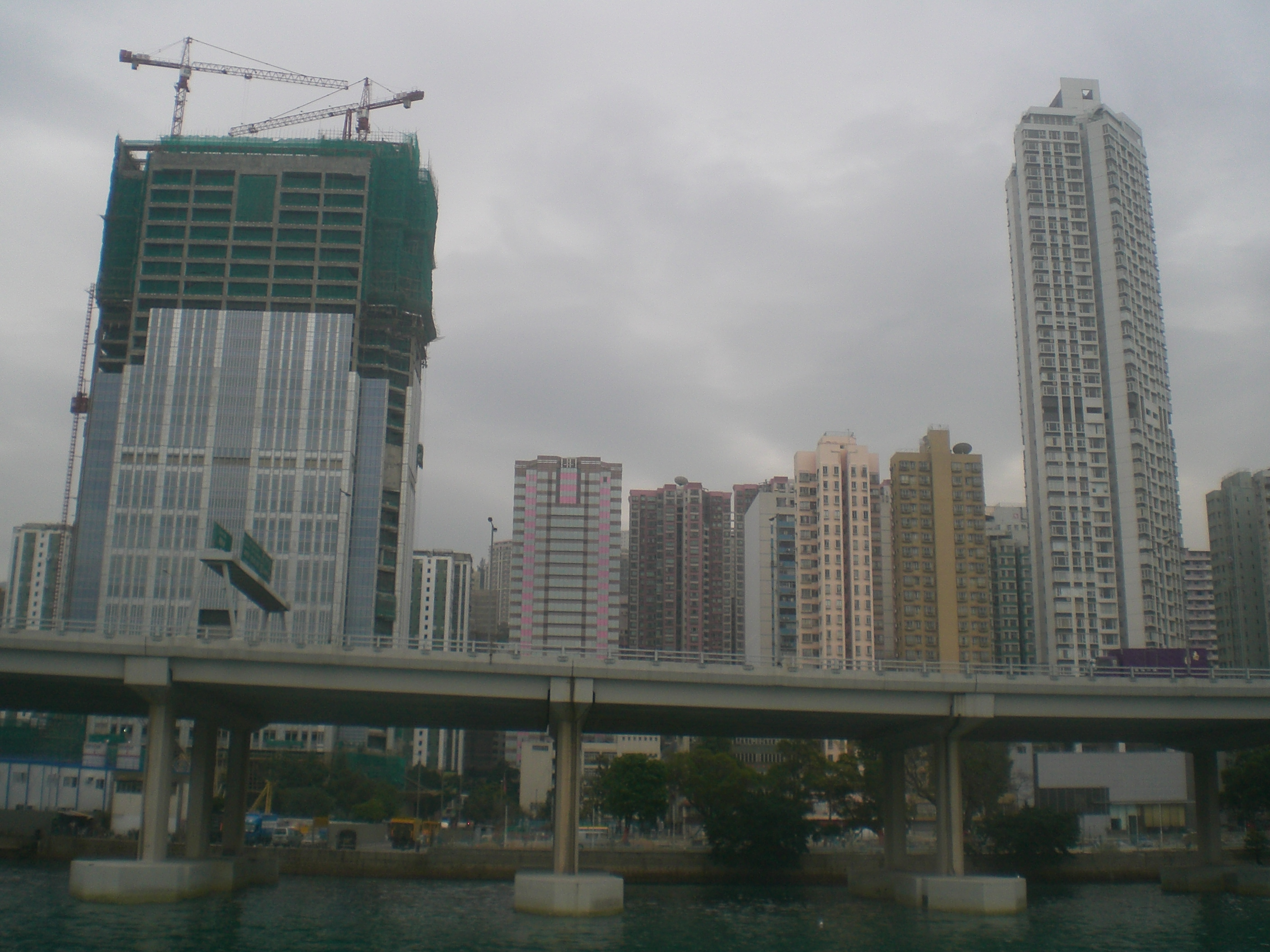 水路zh:北角至zh:觀塘 海關總部大樓 港濤軒 東區走廊 富裕小輪景觀